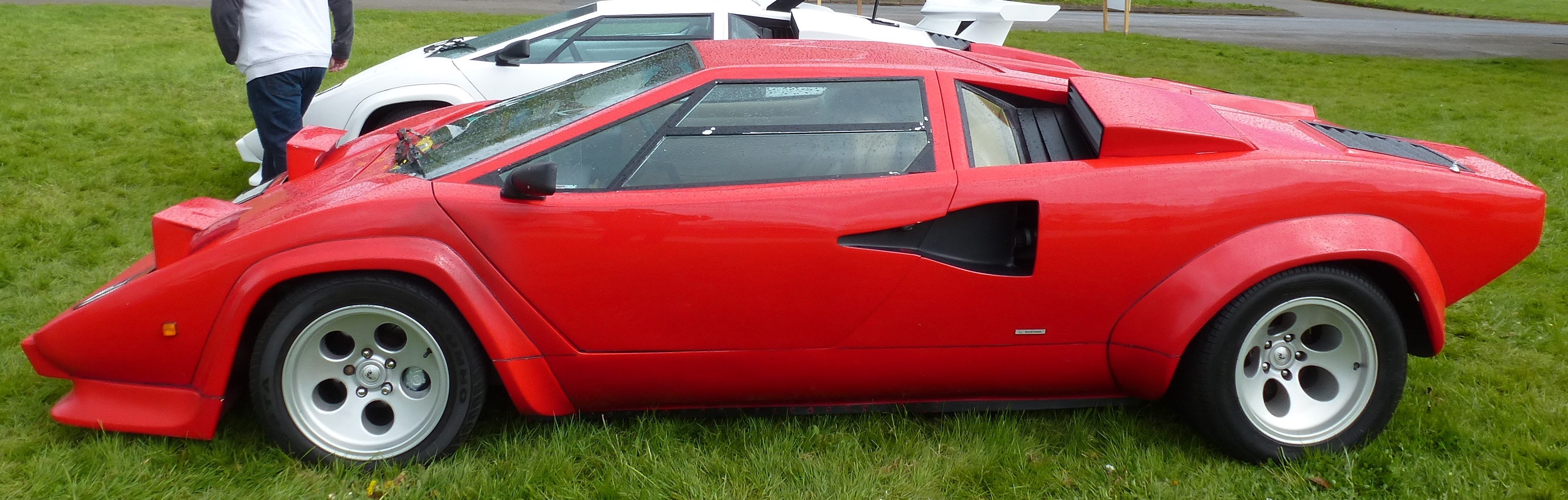 Masterco Countach